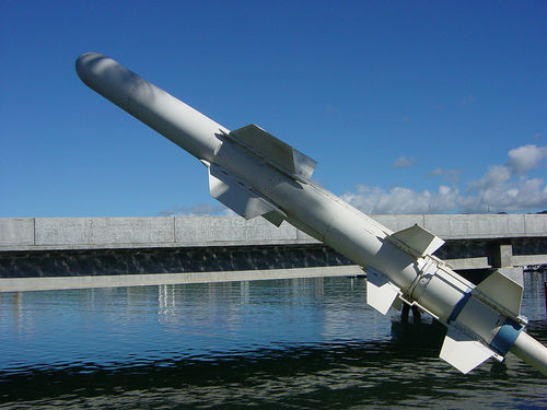 A Harpoon missile at the USS Bowfin museum at Pearl Harbor